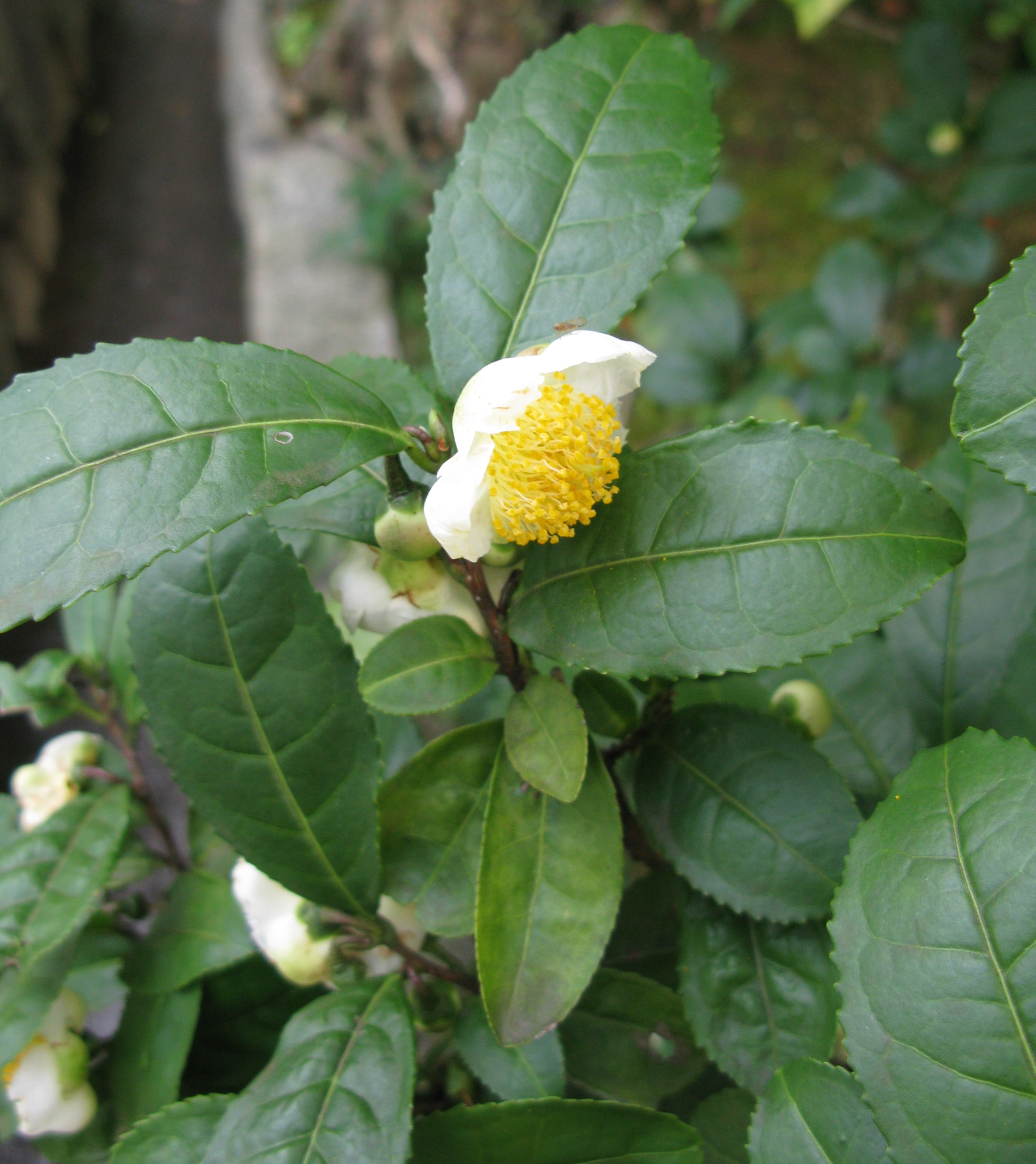 Camellia sinensis, Kyoto city, Japan